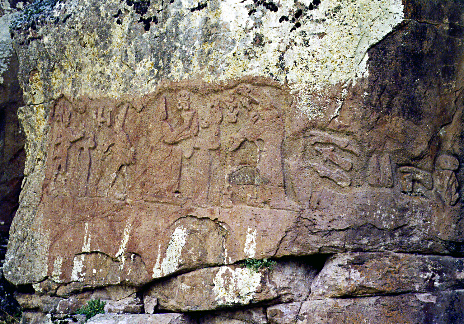 God on left: Luwian hieroglyph-Deus; 3rd figure from left: hieroglyphs: "Deus-Great"